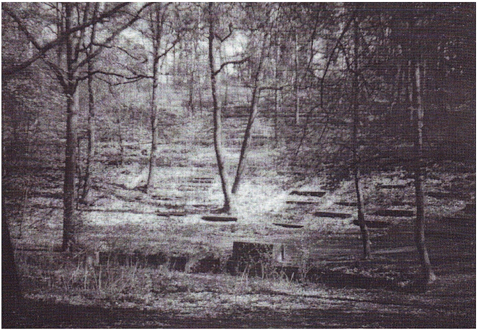 Amphitheater in Prague (1.9.2003)